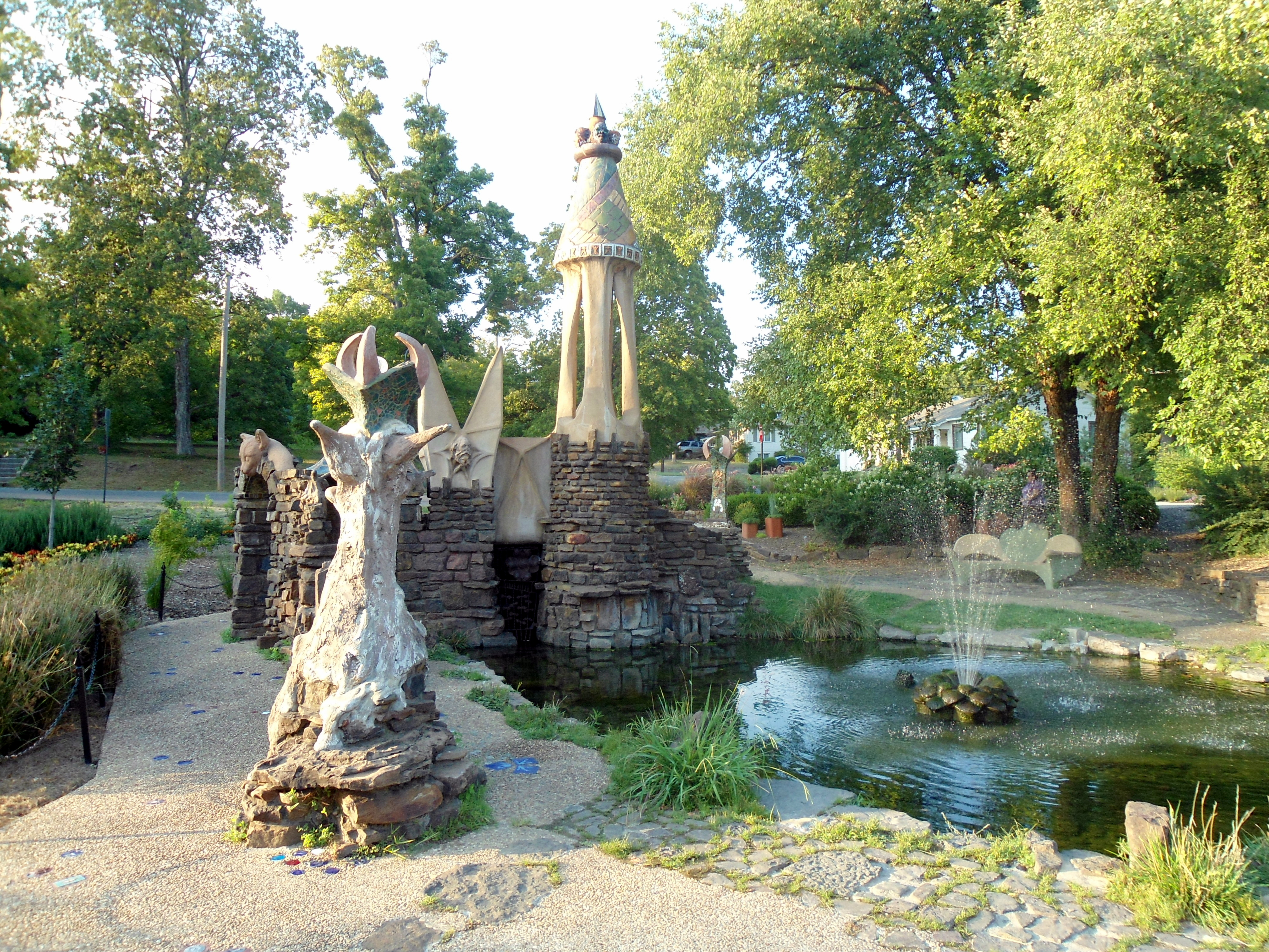 Castle area of Fayetteville, Arkansas's Wilson Park in central Fayetteville.